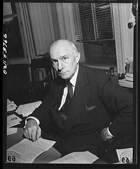 Stanley K. Hornbeck, special assistant to the Secretary of State